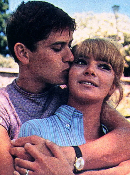 Italian singer Gianni Morandi and actress Laura Efrikian